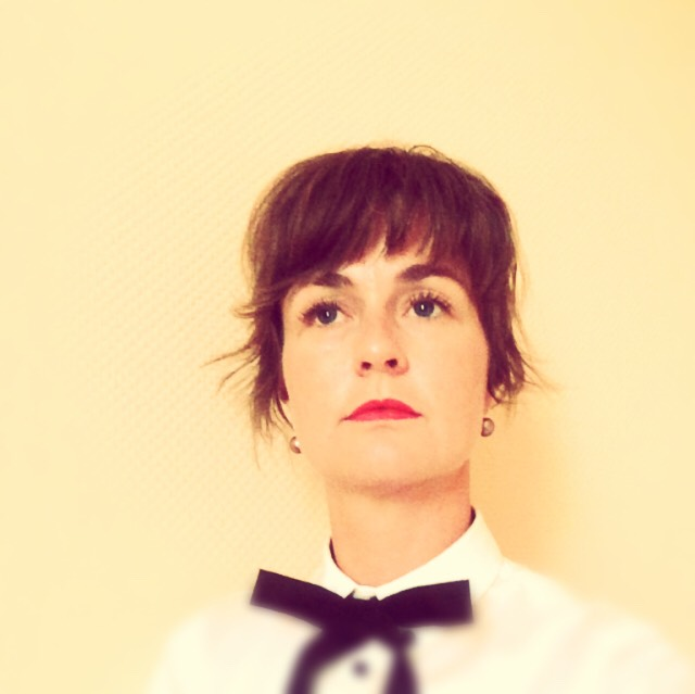 photo i took of sarah moeremans